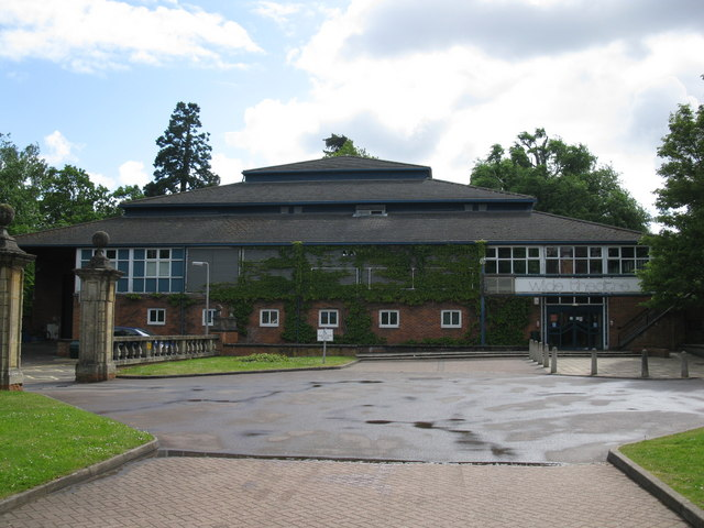 Wilde Theatre, South Hill Park Next to the original South Hill Park house is the modern Wilde (as in Oscar) Theatre.